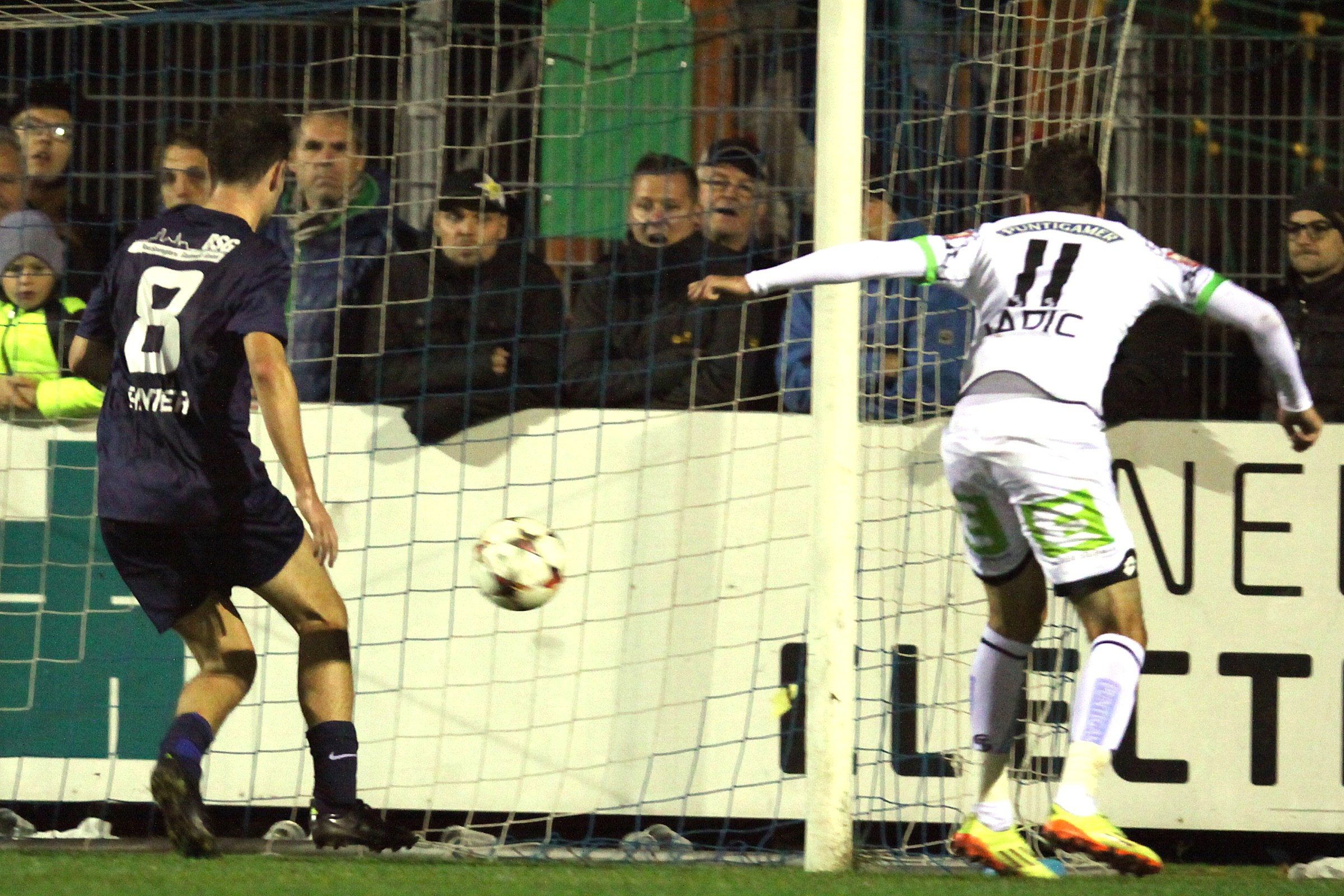 Austrian Cup – ASK Ebreichsdorf (blue shirts) vs. SK Sturm Graz (white shirts) on 2015-10-27 in Ebreichsdorf, 2-3 (0-1) – The photo shows the goal for 2-3 from Josip Tadic (right). Christopher Pinter (left) is to late.